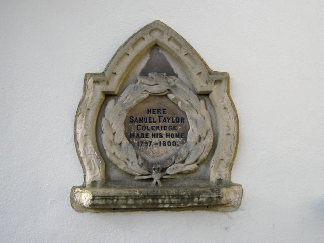 Commemorative plaque On the wall of Coleridge Cottage, Nether Stowey